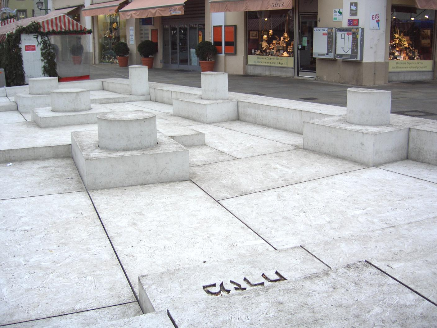 Memorial depicting the fundaments of the Regensburg Synagogue destroyed in 1519. Created by Dani Caravan in 2005